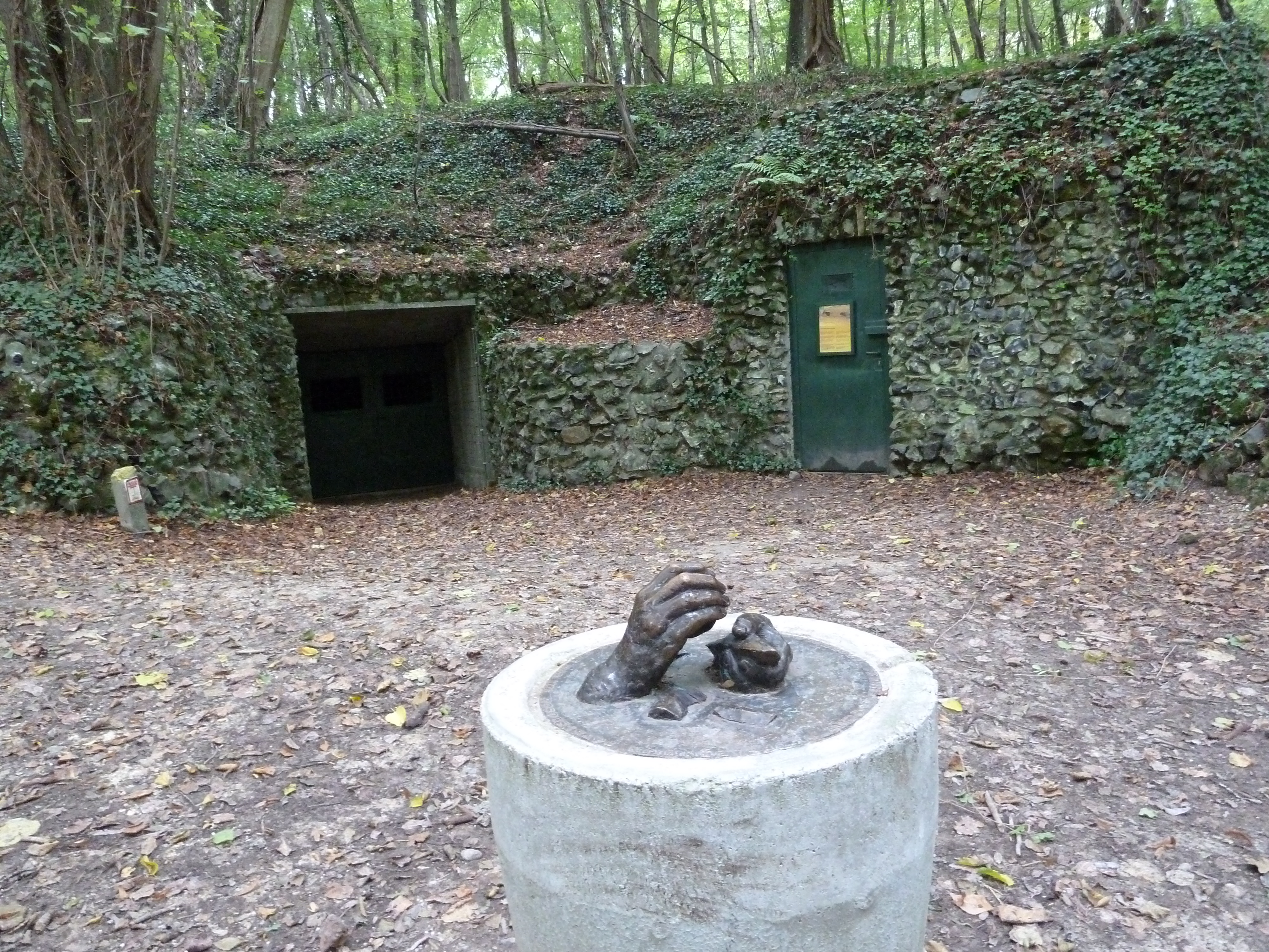 Vuursteenmijn Rijckholt, Limburg, the Netherlands